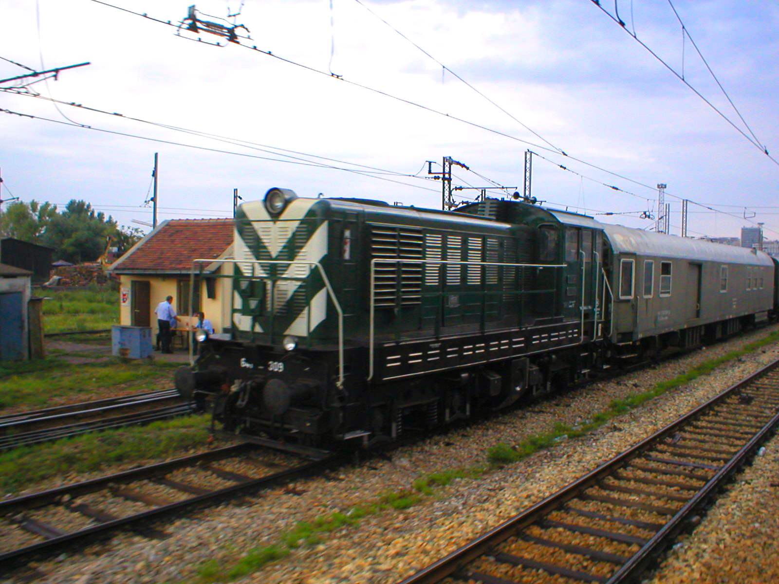 JŽ 641 series locomotive in Belgrade, Serbia